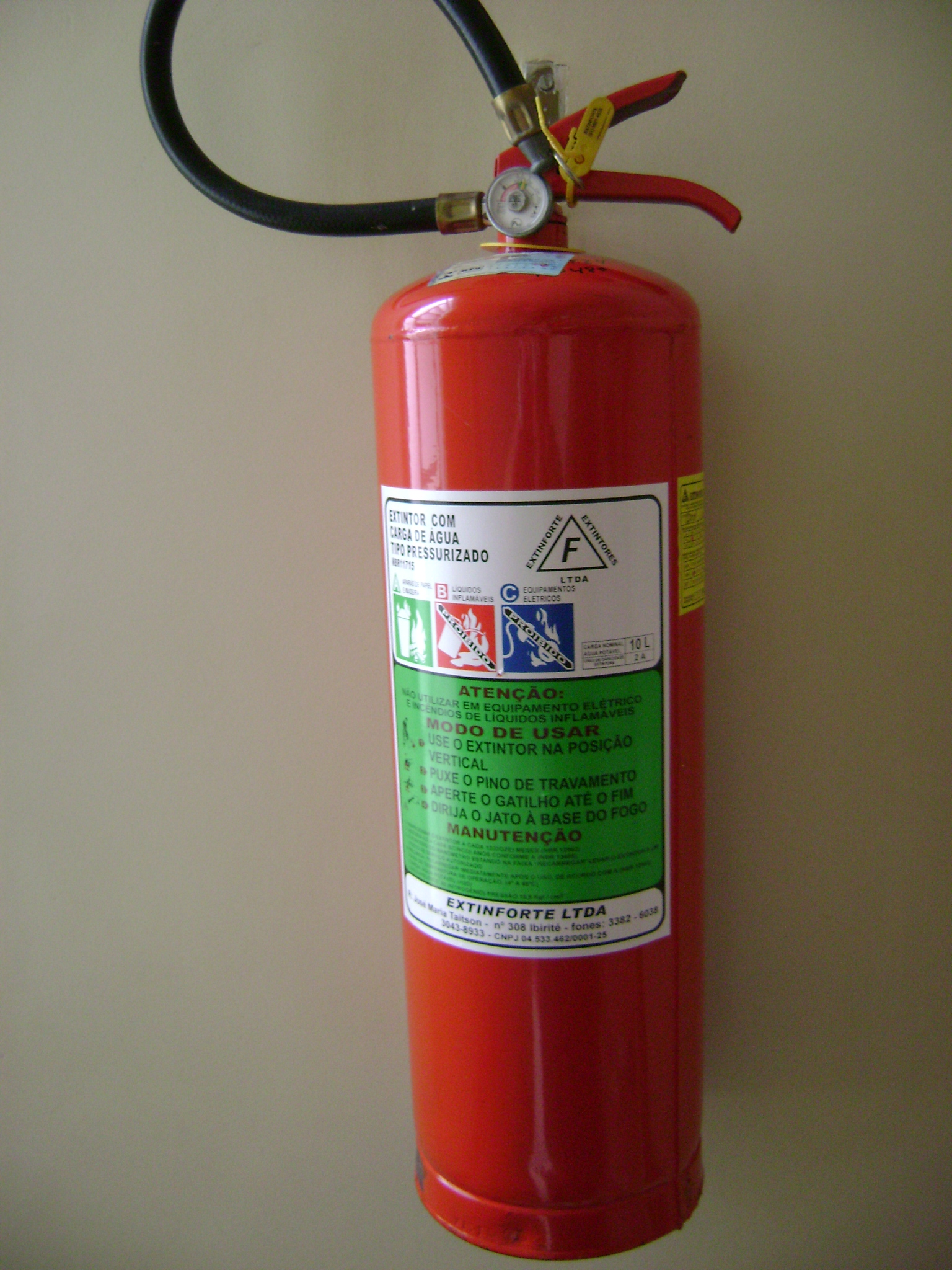 Fire extinguisher